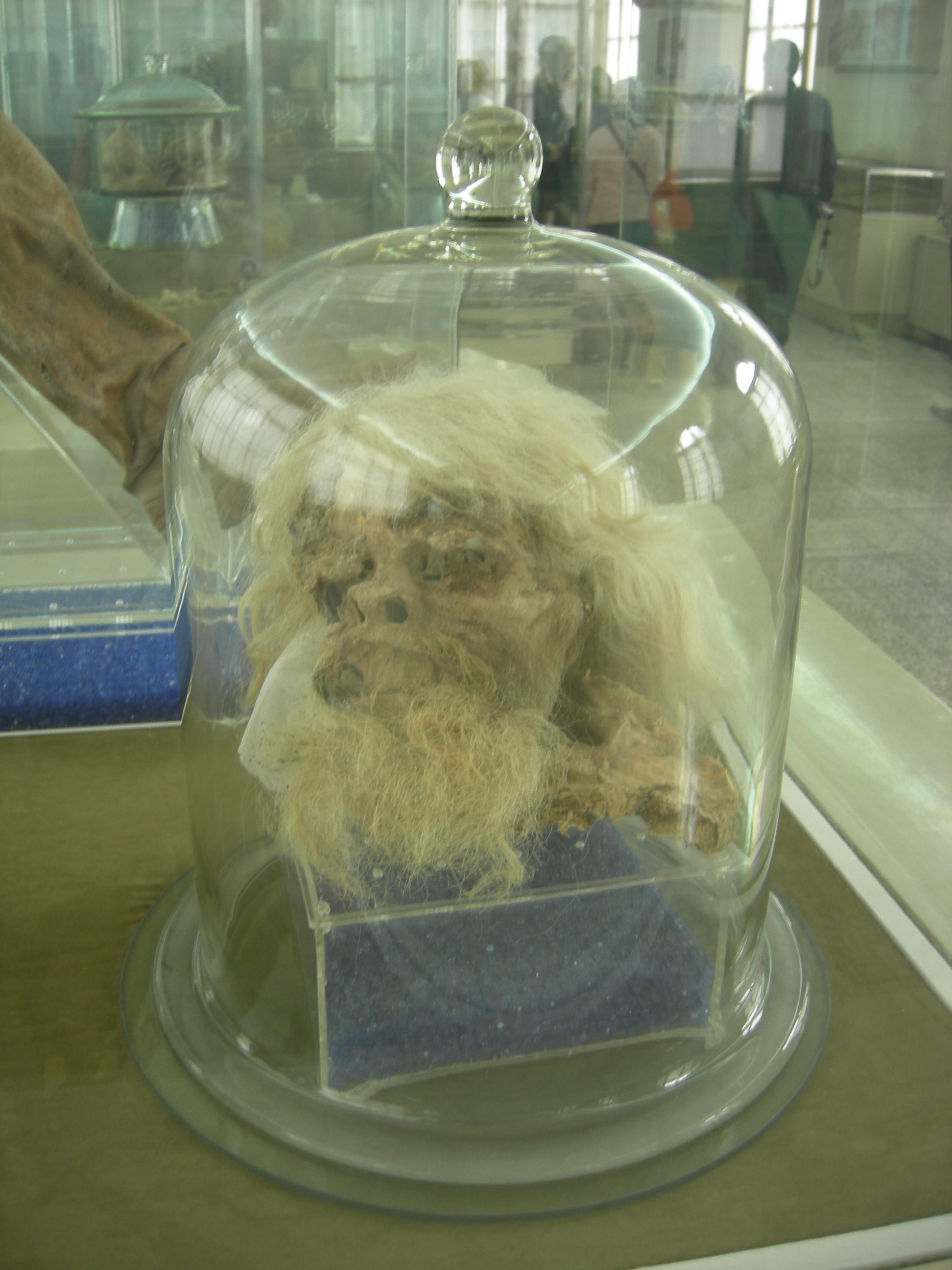 Head of Salt Man 1 on display at Iran Bastan Museum. One of the Saltmen found in 1994 in Douzlākh salt mines near Chehrābād, located on the southern part of the Hamzehlu village, on the west side of the city of Zanjan, Zanjan Province in Iran.